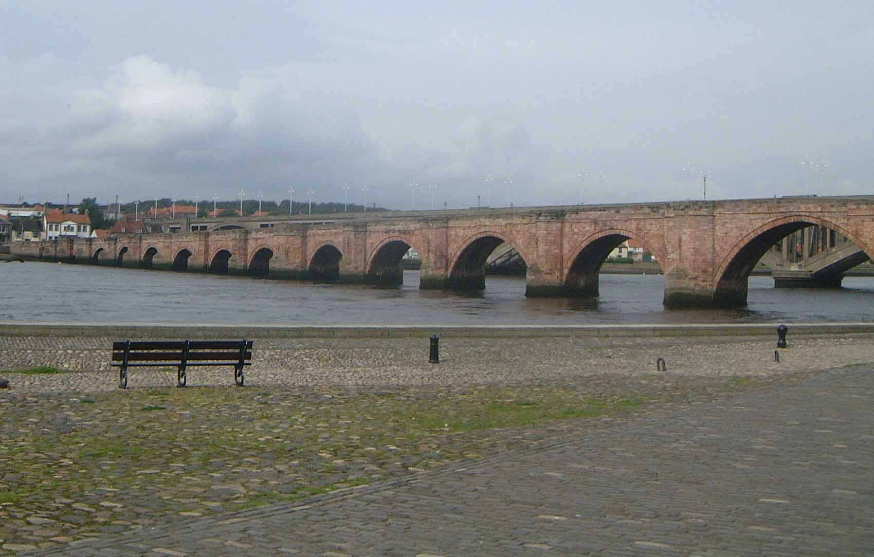 Personal photograph taken by Mick Knapton on 23rd August 2004.